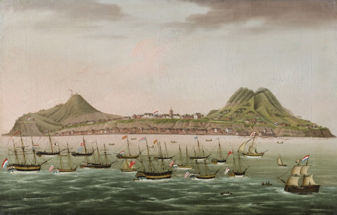 View of Pulau Run (Run Island) in the Banda Sea with Indiamen and other shipping in the roadstead , ca. 1790. 'Chinese School' painting according to the auction house.